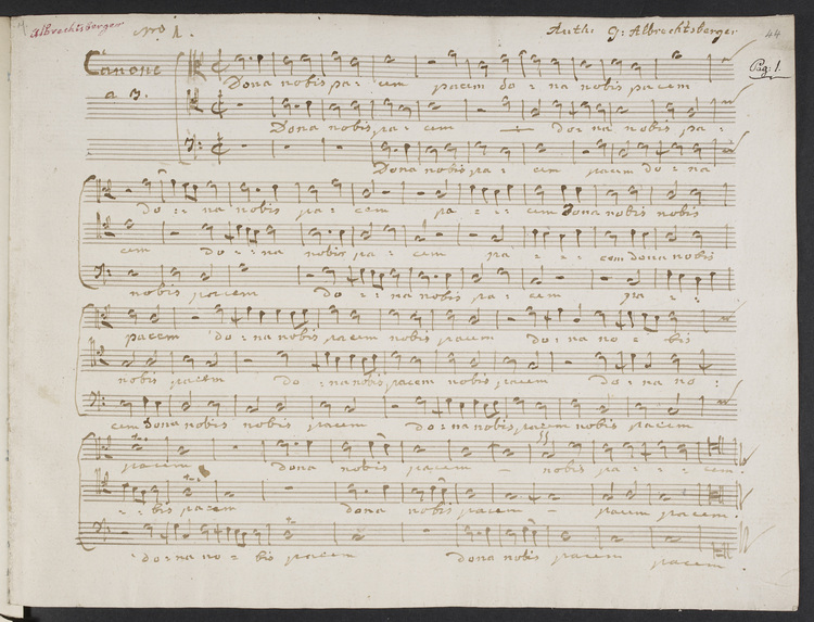 A handwritten page from the manuscript score of VII Canoni a piu voci in partitura, in the author's own hand. Held and digitised by the British Library.